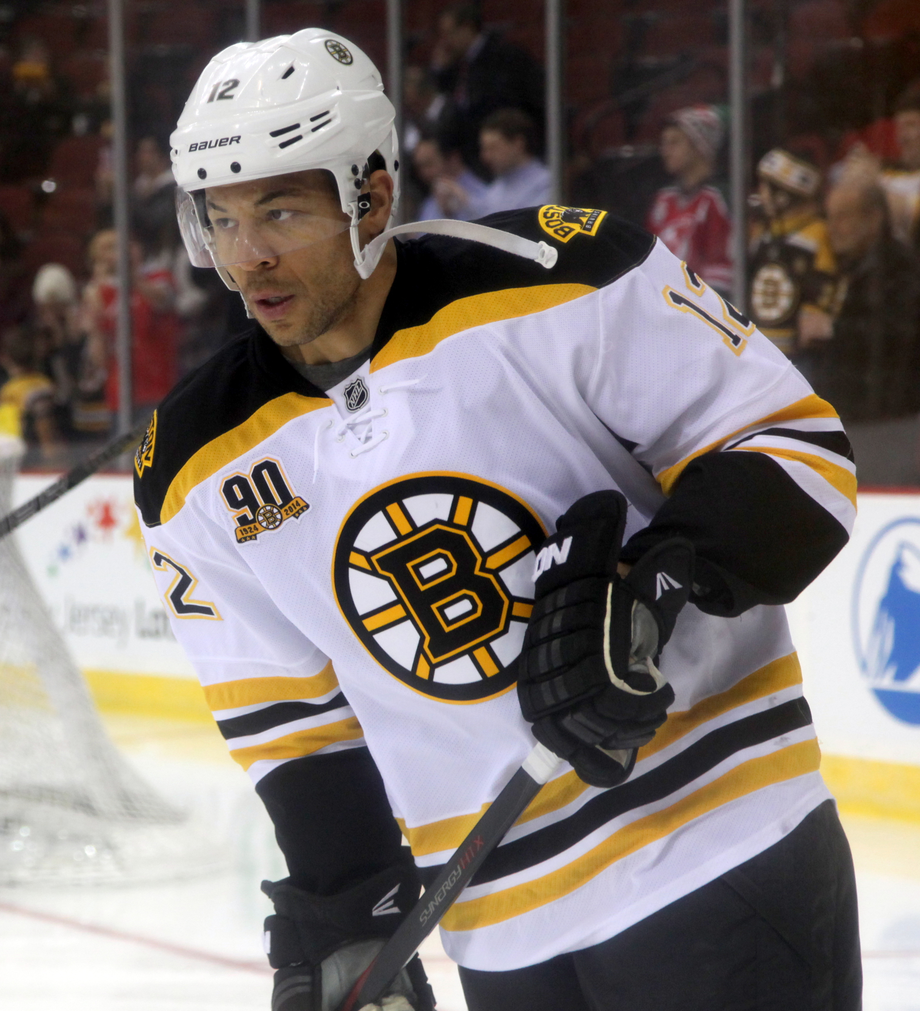 Jarome Iginla in 2014.